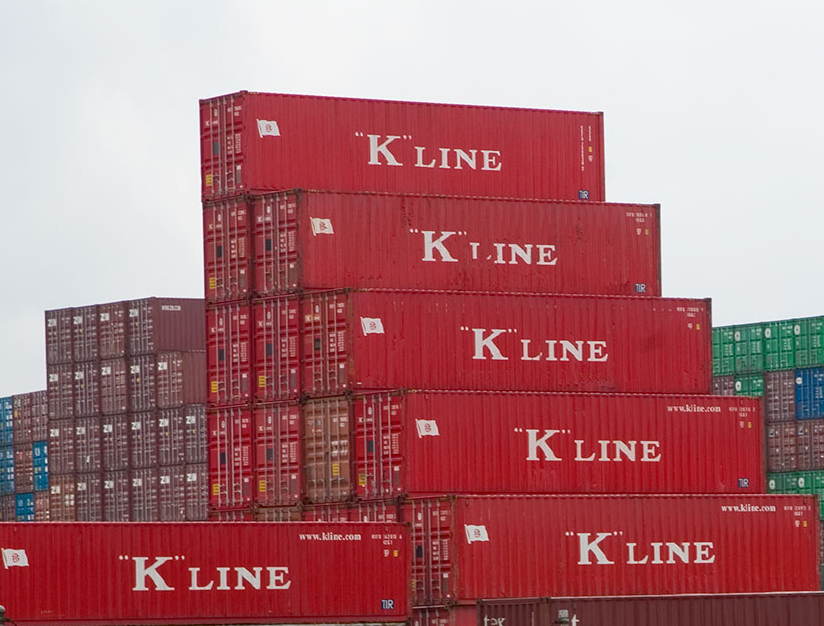 Containers of K Line, a Japanese shipping company. Photograph taken at Newark, NJ.